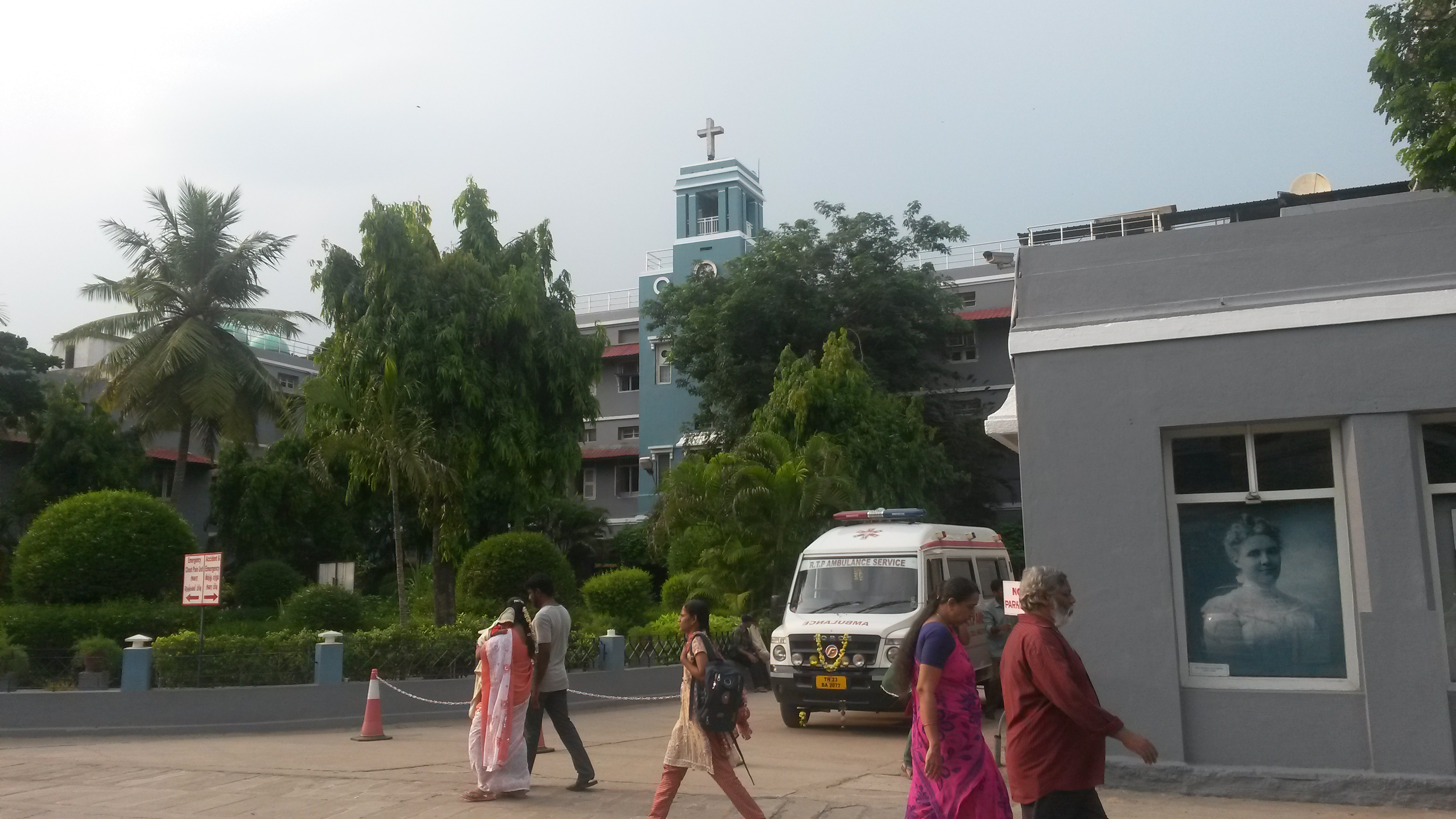 CMC Vellore images